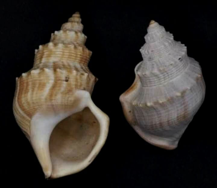 Two seashells of the marine mollusc Struthiolaria papulosa (Martyn, 1784)[1] from the collection of Naturalis Biodiversity Center. Taken in New Zealand.